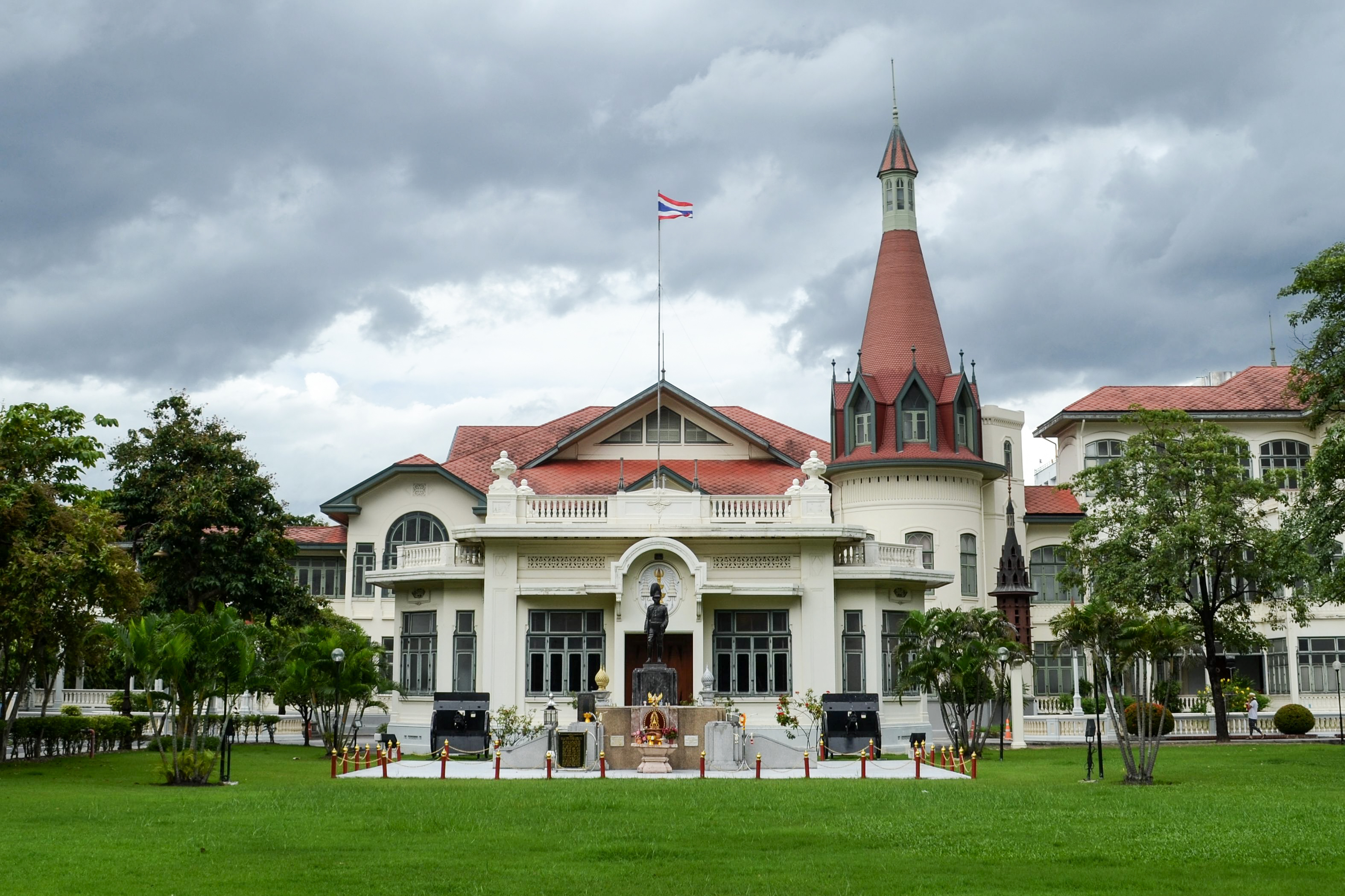 Phaya Thai Palace, Thung Phaya Thai, Ratchathewi, Bangkok